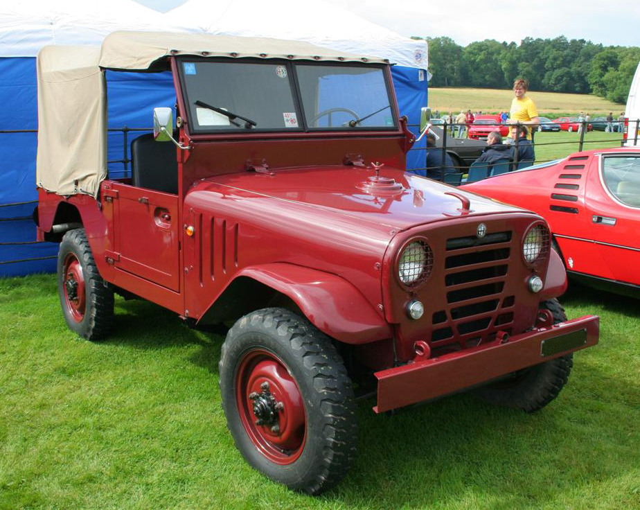 1953 Alfa Romeo Matta (1884cc engine) at the Auto Italia Show 2007, Stanford Hall, UK Camera: Canon EOS 350D Digital License on Flickr (2011-07-28): CC-BY-SA-2.0 Flickr tags: auto, italia, 2007, stanford, hall